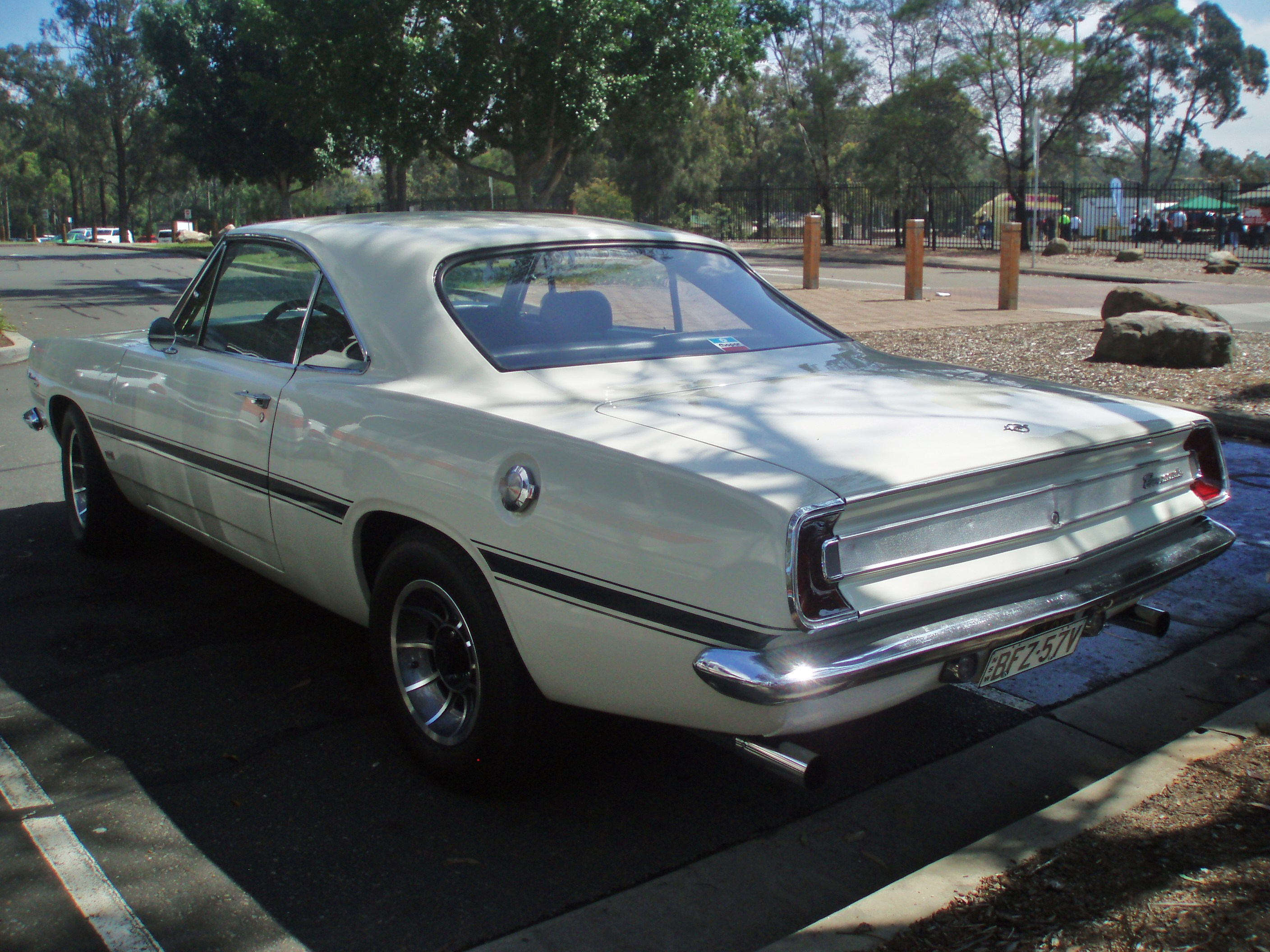 1967 Plymouth Barracuda notchback coupe. Taken in the carpark outside the 2010 New South Wales All Chrysler Day, held at Fairfield Showground, Prairiewood, Sydney.